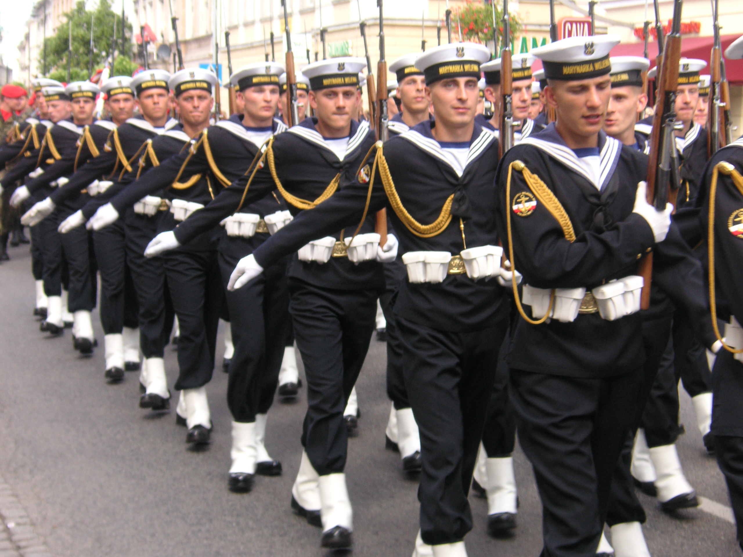 A military parade in Warsaw's Royal Road (Nowy Świat Street), commemorating the Feast of the Polish Army (August 15th) Navy